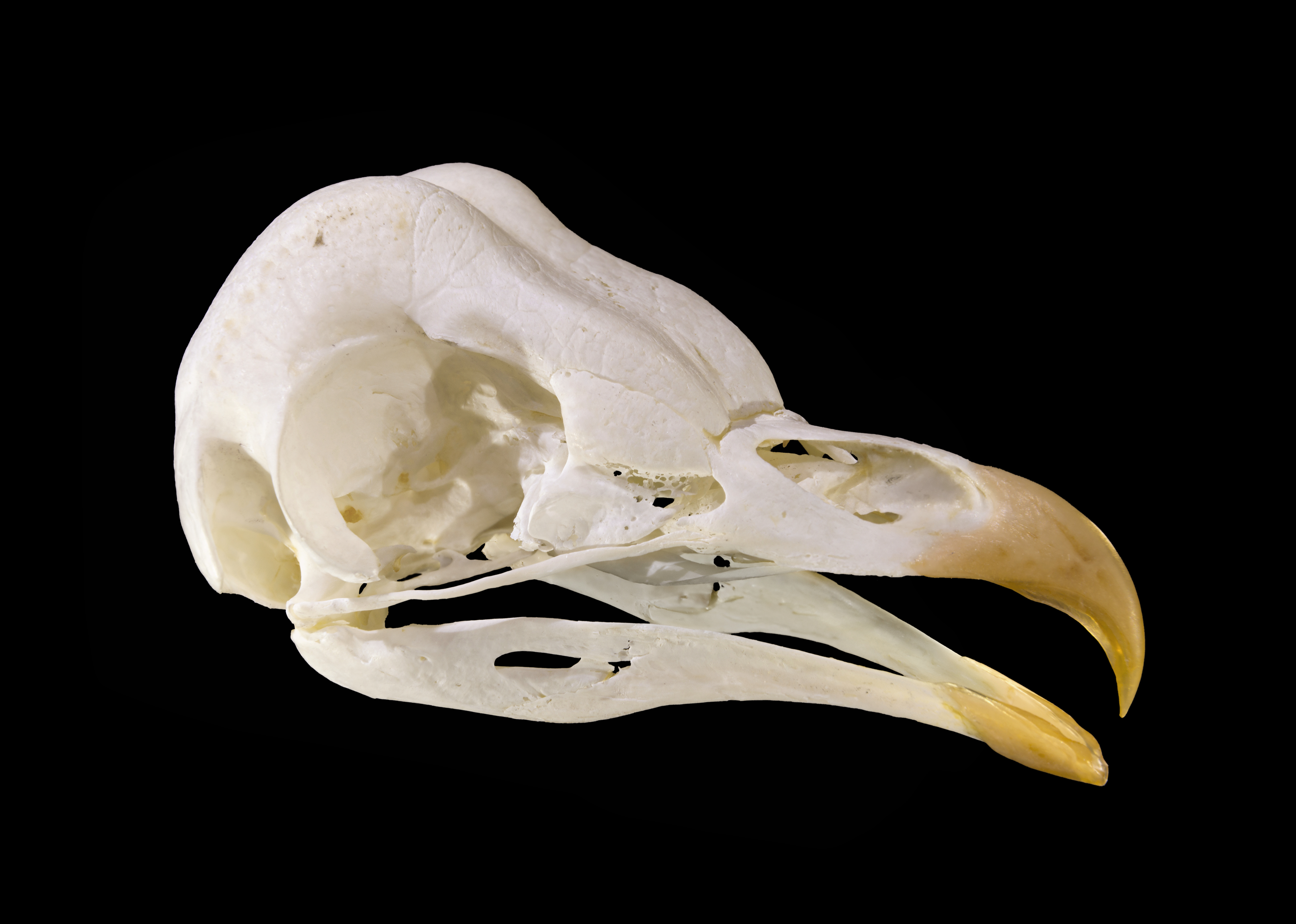 Barn Owl Skull Size : 70x40x32 mm